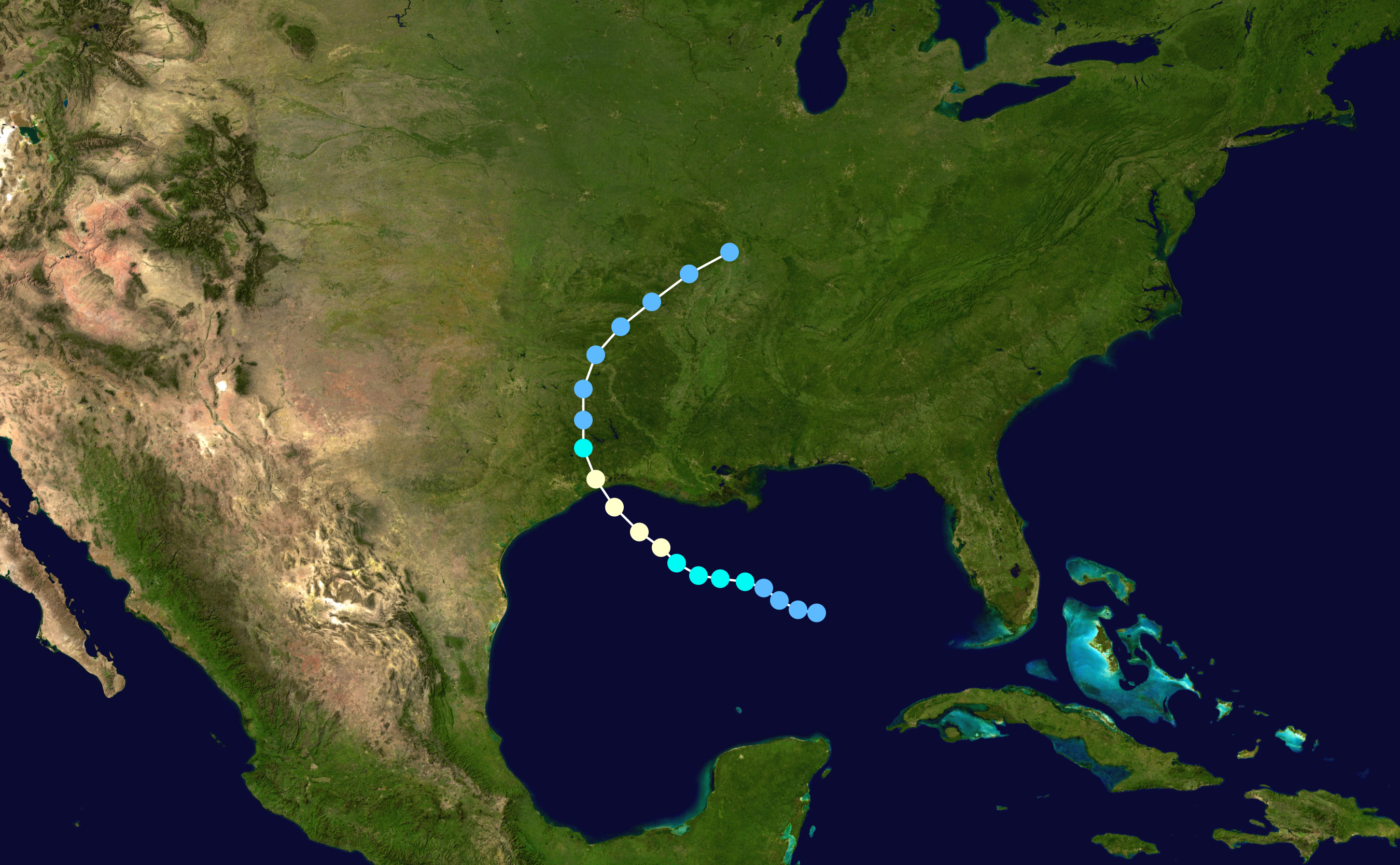 Hurricane Bonnie (1986) track. Uses the color scheme from the Saffir-Simpson Hurricane Scale.